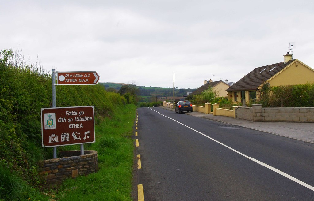 The R523 road entering Athea, Co. Limerick